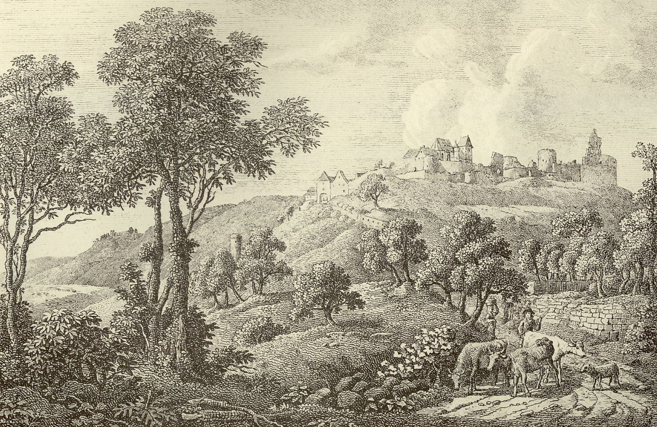 historical sight of the German castle of Neuleiningen by Roux